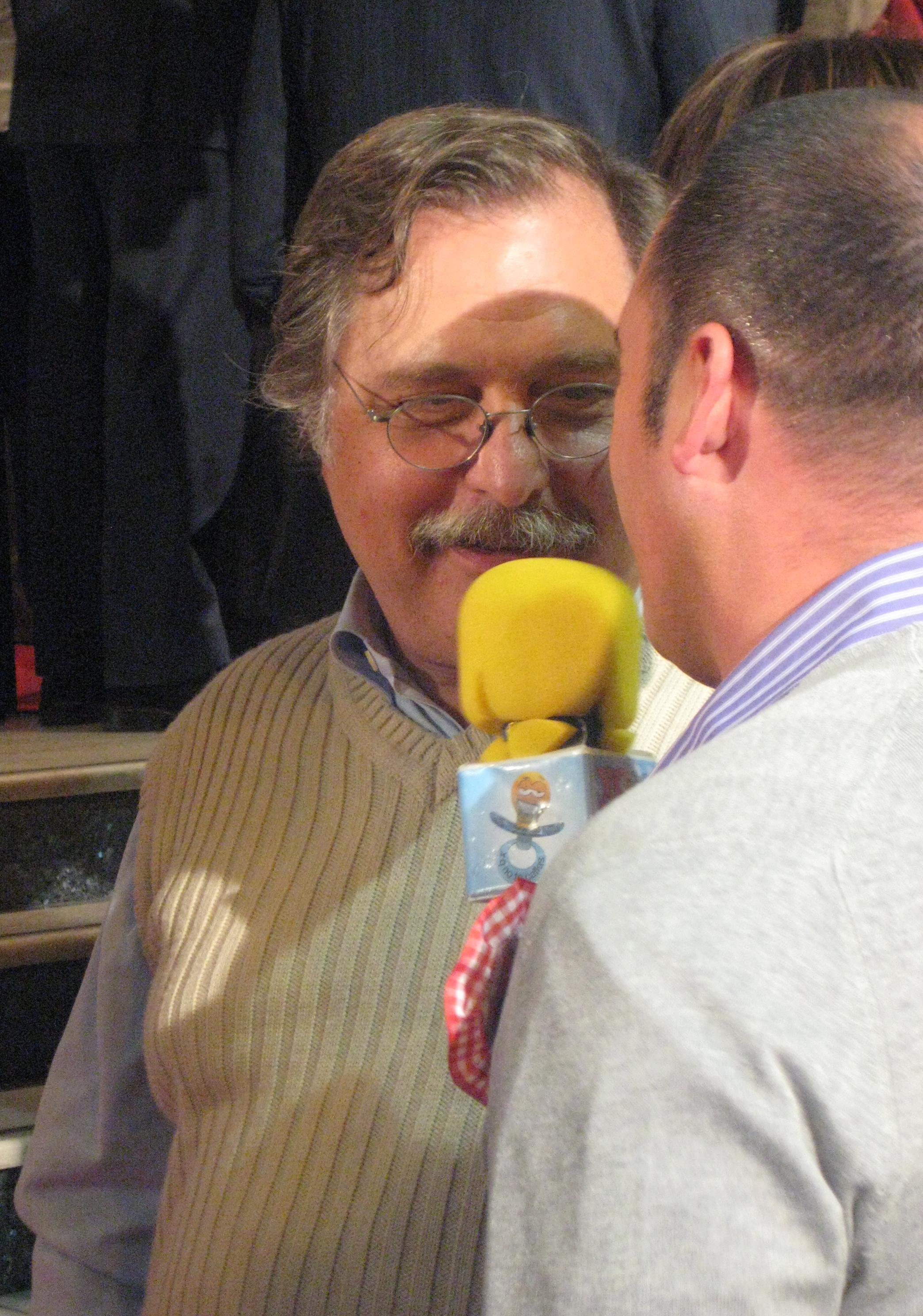 Klaudio Landa interviews Luis Herrero before the premiere of the Spanish film Sangre de Mayo at Teatro Callao, Madrid.